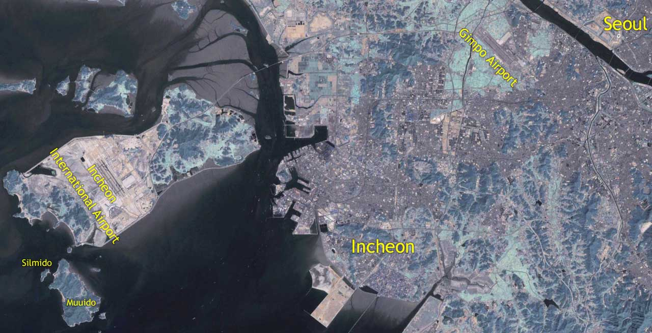 Silmido, an island of South Korea off the coast of Incheon. Satellite image.